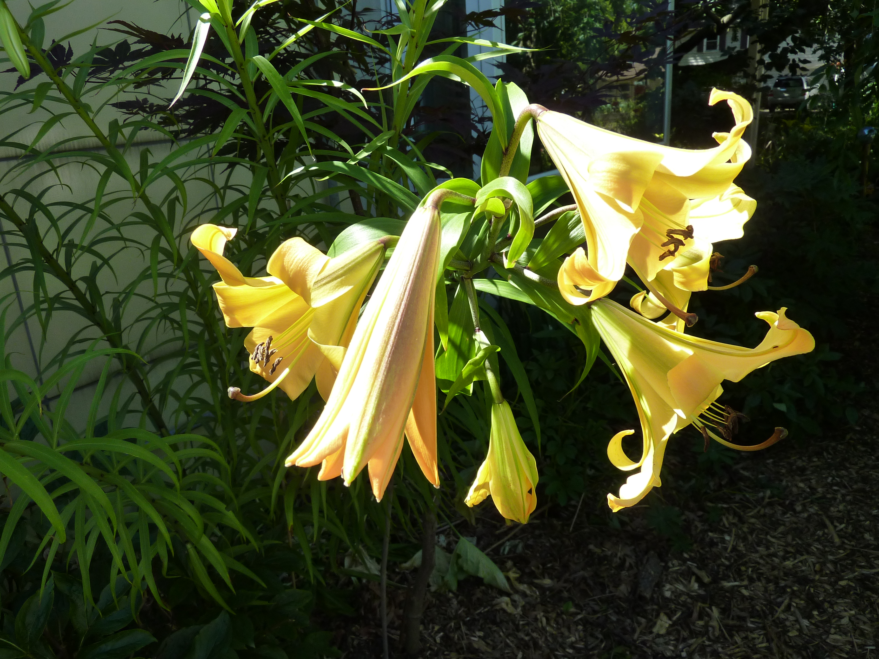 Lilium 'Golden Splendor' flowering in the garden of botanist Robert R. Kowal in Madison, Wisconsin.